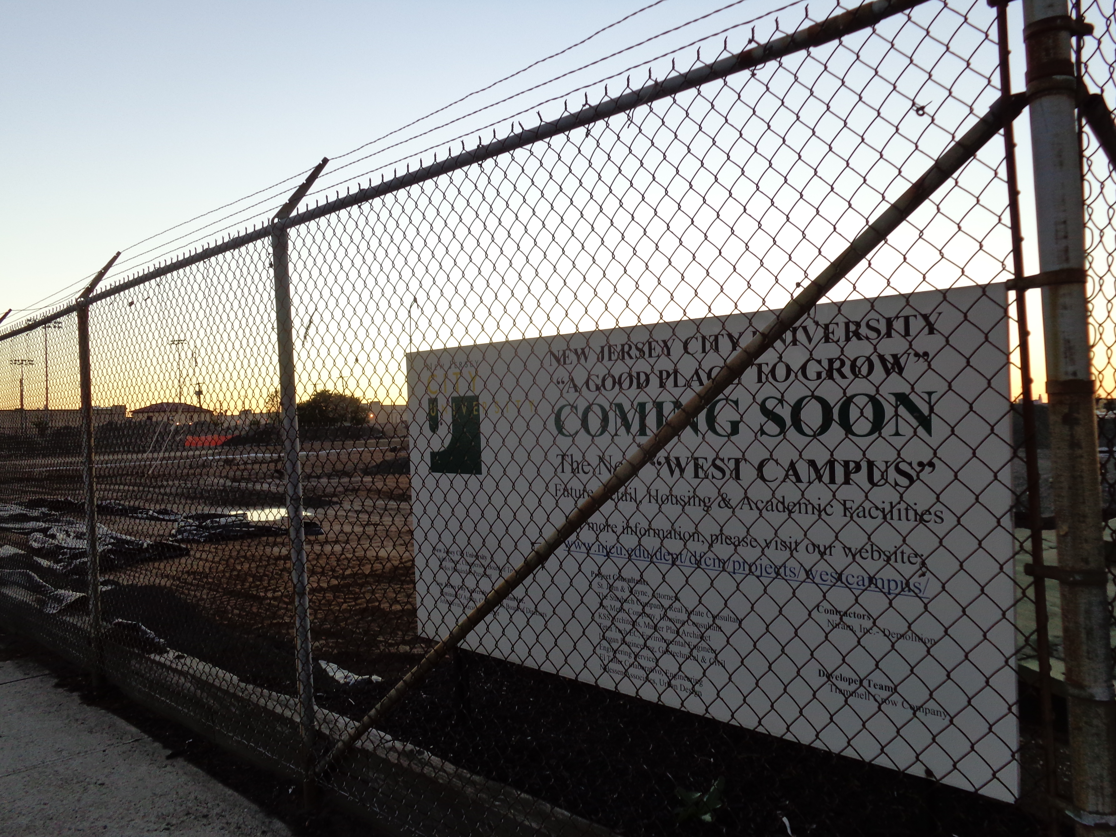 New Jersey City University West Campus contraction site on West Side Avenue Jersey City